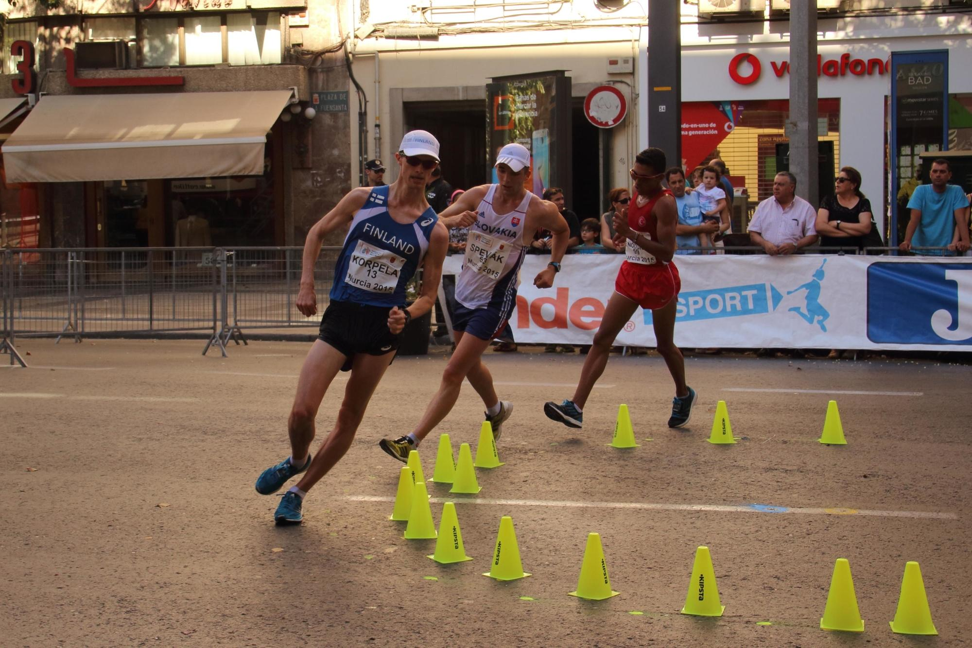 13-Matias Korpela (FIN), 53-Patrik Spevák (SVK) y 59-Sahin Senoduncu (TUR) in the 11th European Cup Race Walking Murcia ESP 17 May 2015